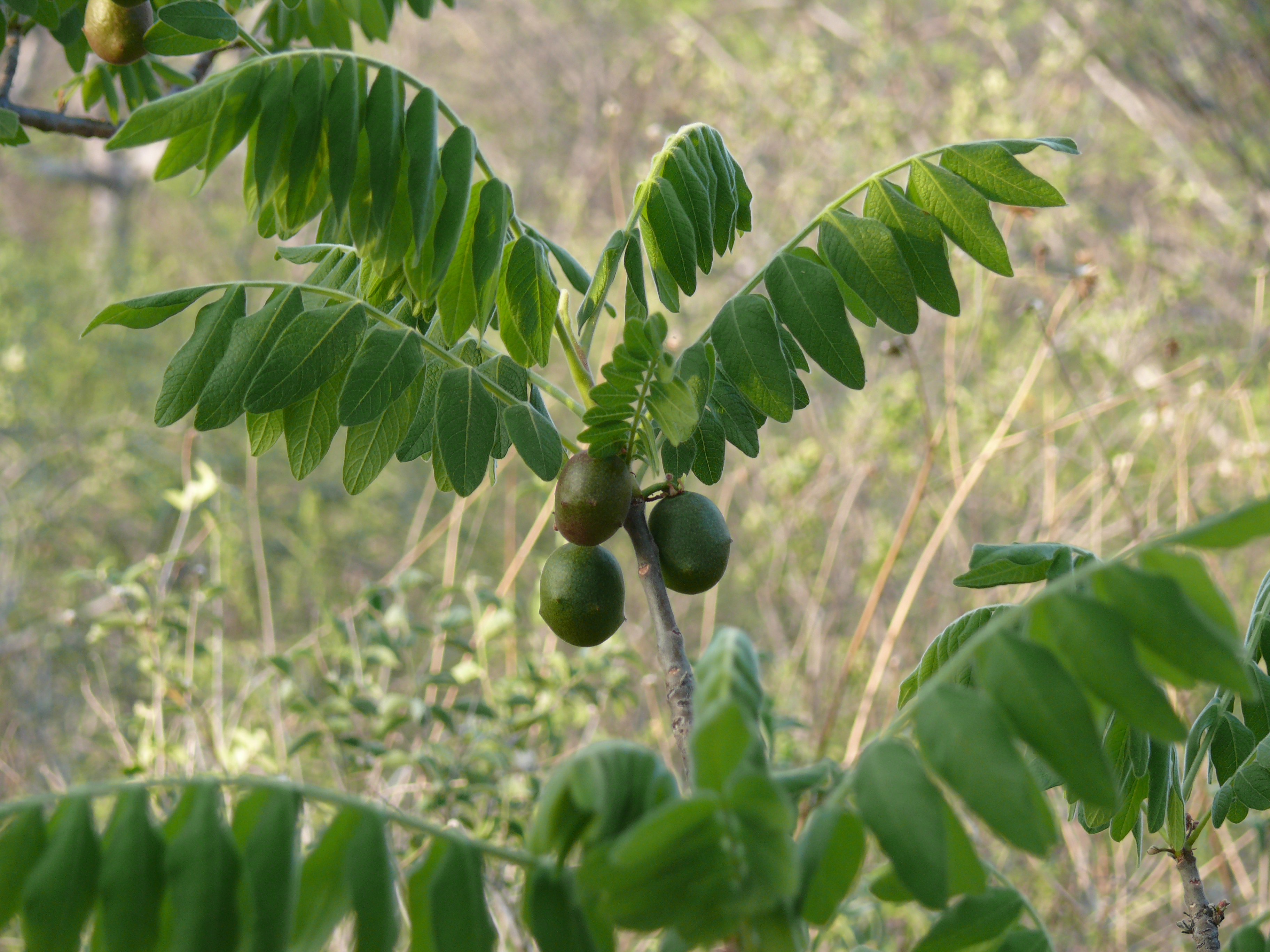 Cyrtocarpa procera fruit at the 2010 season